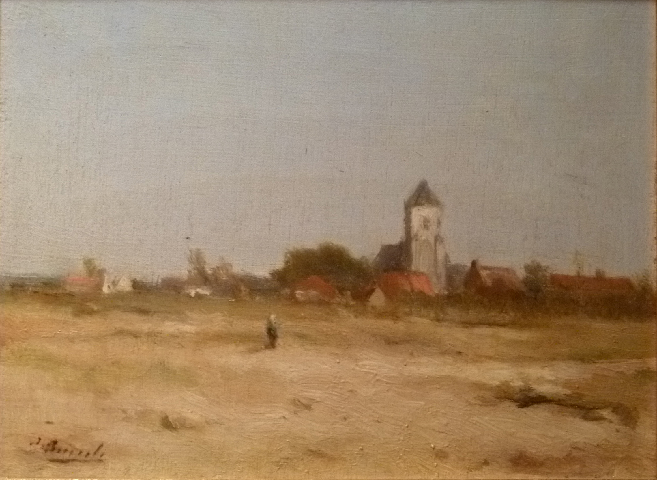 "Landscape with the church of Heist" (1883) by the Belgian painter Jacques Rosseels (1828-1912); Kunstcollectie Dendermonde